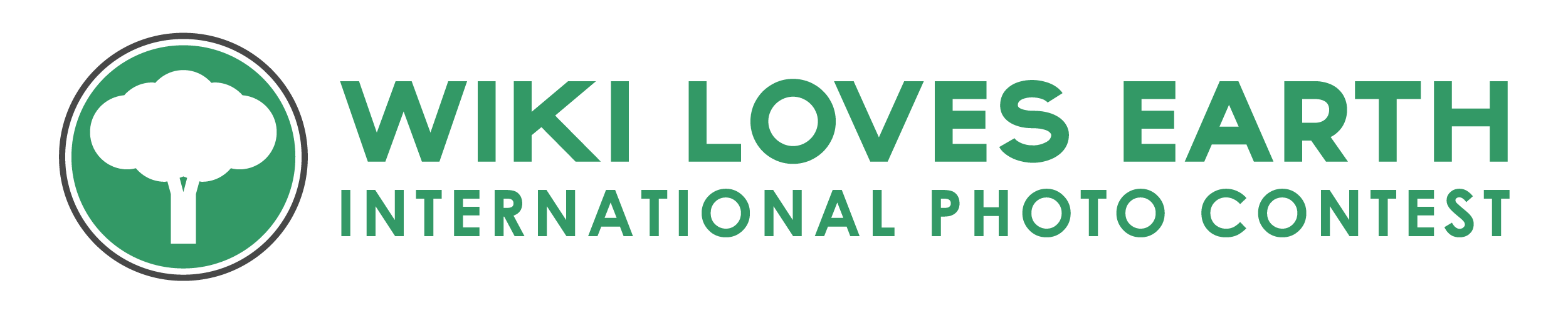 Wiki Loves Earth logo - Green